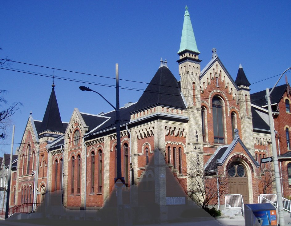 Taken by SimonP in April 2005